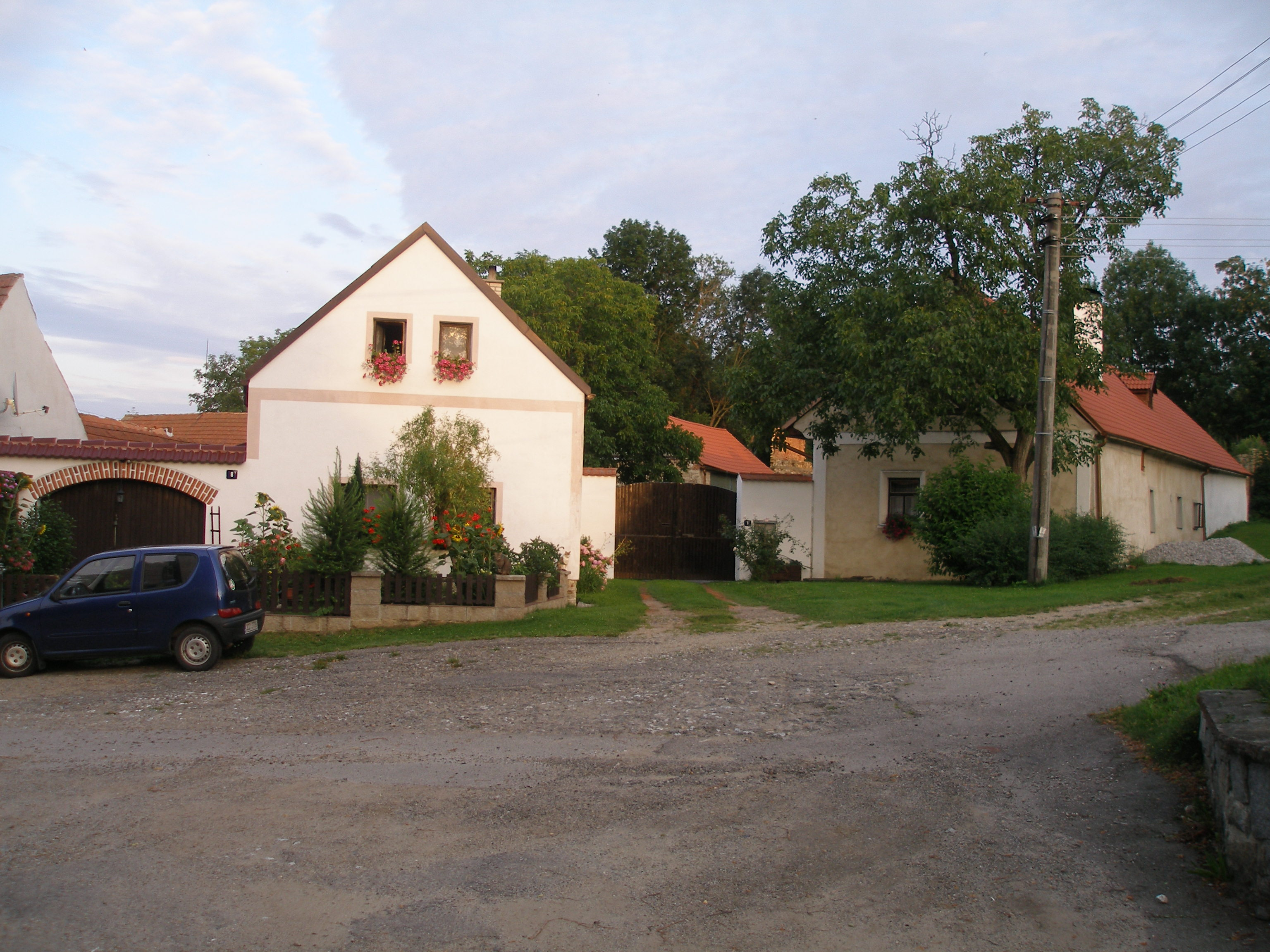 Chlumec (Český Krumlov District) - the square